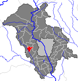 This map shows the area of the Gemeinde (municipality) Rohrbach-Steinberg in the Bezirk (district) Graz-Umgebung, Styria, Austria.